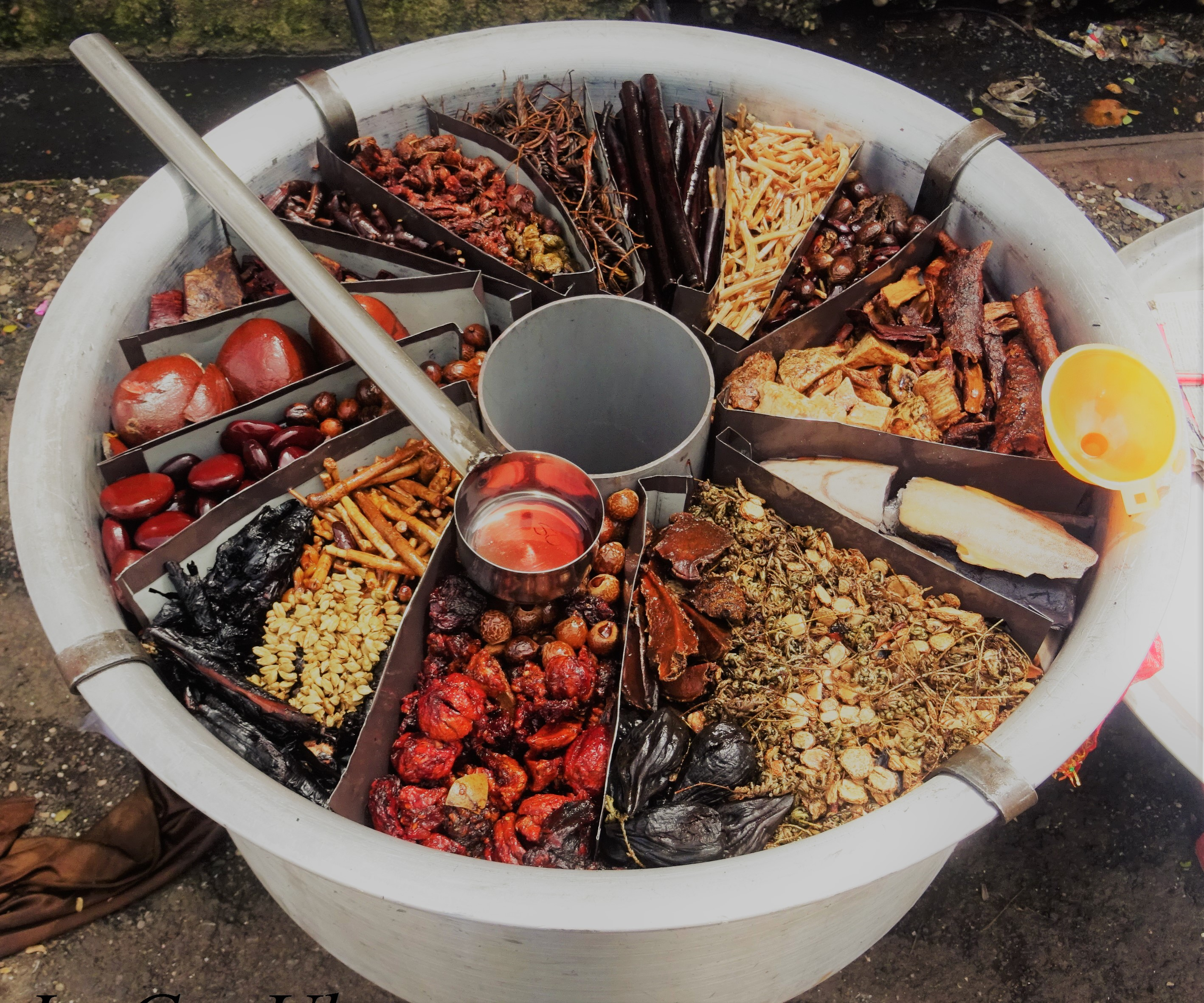 Zall-paleamchim vokdam Zadd-pallam migrant at Fish Market Panaji quackery 15 sections